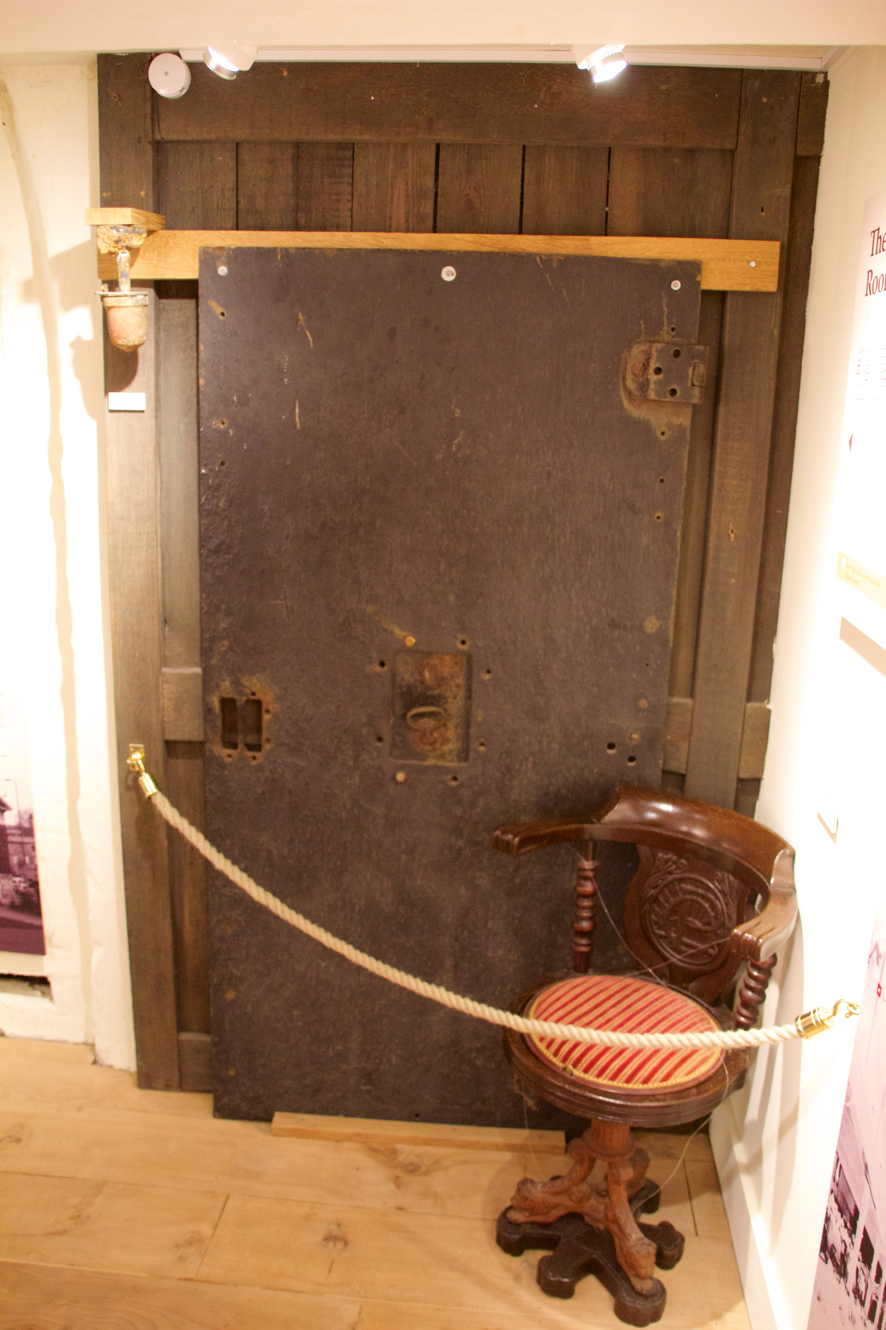 Door to the Bullion Room of the Persia. Buckler's Hard Maritime Museum, Beaulieu, Hampshire, United Kingdom.